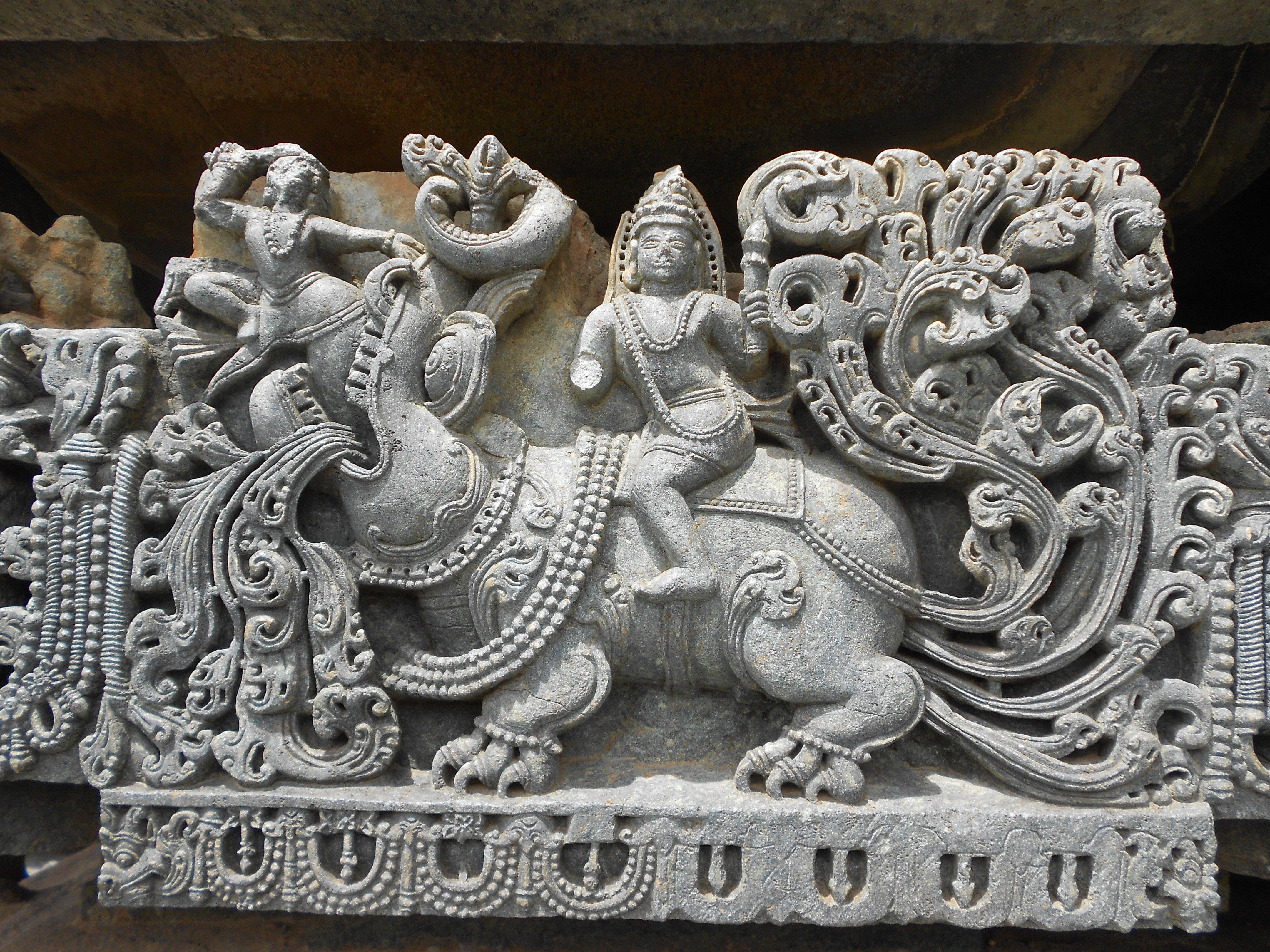 It has body parts of seven different animals. Tail of a peacock Body of a pig Face of a crocodile